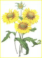 Gaillardia pinnatifida (Red Dome Blanketflower) painted by Pierre-Joseph Redoute